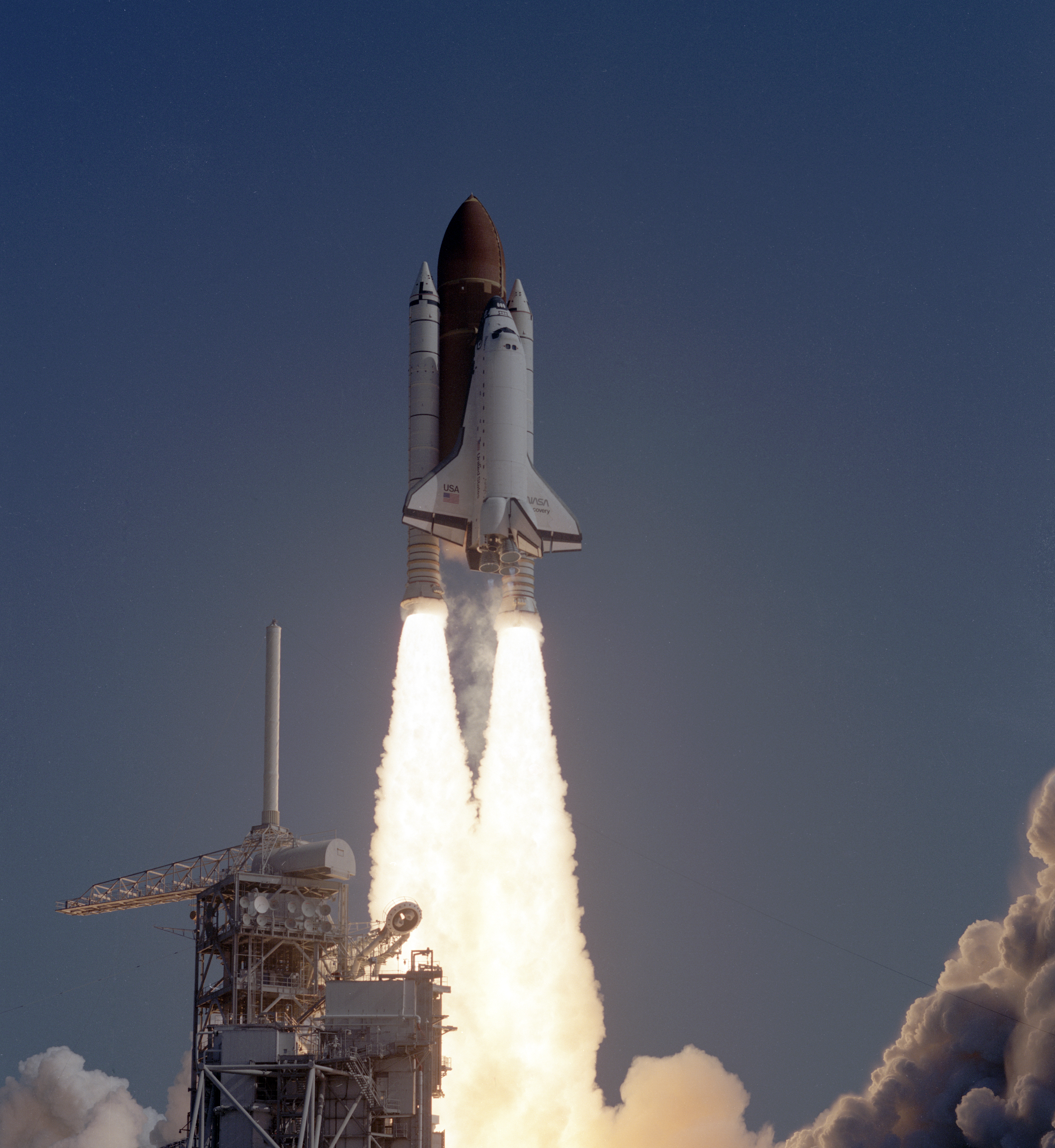 Liftoff of mission STS-29/Discovery.